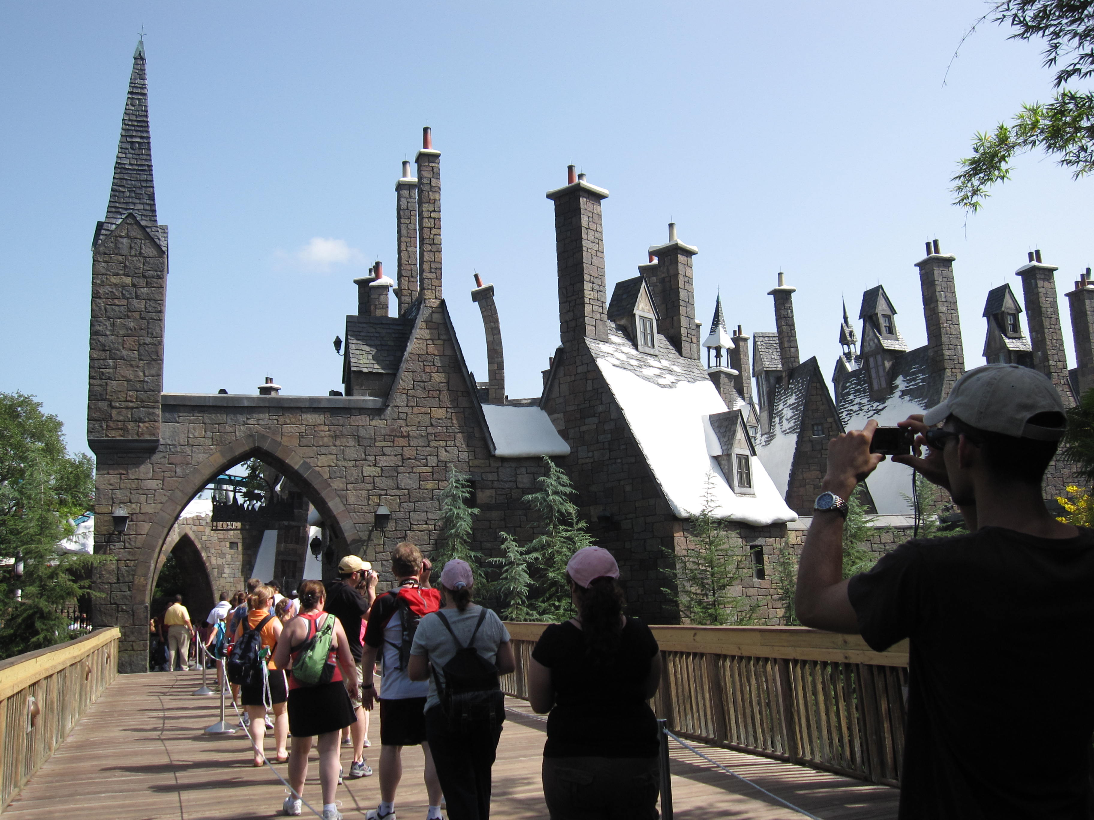 The Entrance of The Wizarding World of Harry Potter